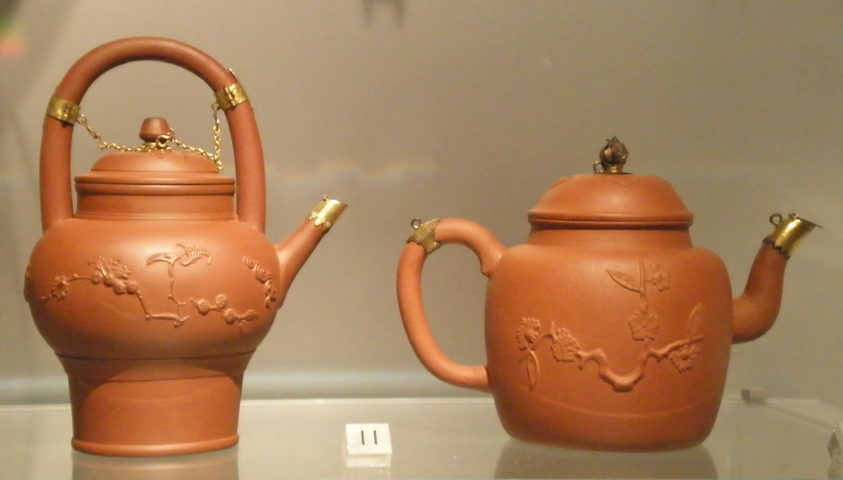 English teapot (left) 1690-98 David Elers and John Philip Elers Red stoneware, slip-cast with applied sprig-moulded decoration Made at the Elers' factory, Bradwell Wood, Staffordshire (active 1690-98) Impressed with four imitation Chinese characters This teapot appears to be unique, although another example of the body shape is known, with a normal loop handle at the back. The overhead 'bucket' handle was common on Chinese porcelain or enamel teapots from Canton (Guangzhou province), but is not known on the red stonewares from Yixing (Jiangsu province). Here it may have been copied by the Elers brothers from a European engraving of Chinese teawares rather than from an actual Chinese teapot. Given by W.W. Winkworth Chinese teapot (right) With an inscription dating it to 1627 Chinese red stoneware with European silver-gilt mounts Made by the potter Hui Mengchen at Yixing in Jiangsu Province, China On the base is incised an inscription in Chinese characters translating as 'In 1627 Mengchen made this for the Hall of Friendship' (a room in the home of the client who ordered the teapot). The teapot was made for a Chinese client and has specifically Chinese symbolism and writing. However, it ended up in Europe, where it was embellished with silver-gilt mounts. By contrast, many teapots that reached Europe were designed with more simple shapes, and without decoration with special symbolic meaning. The prunus design was popular on both imported and home-produced wares. Collection ID: C.17-1932 and C.16&A-1968 This photo was taken as part of Britain Loves Wikipedia in February 2010 by David Jackson.